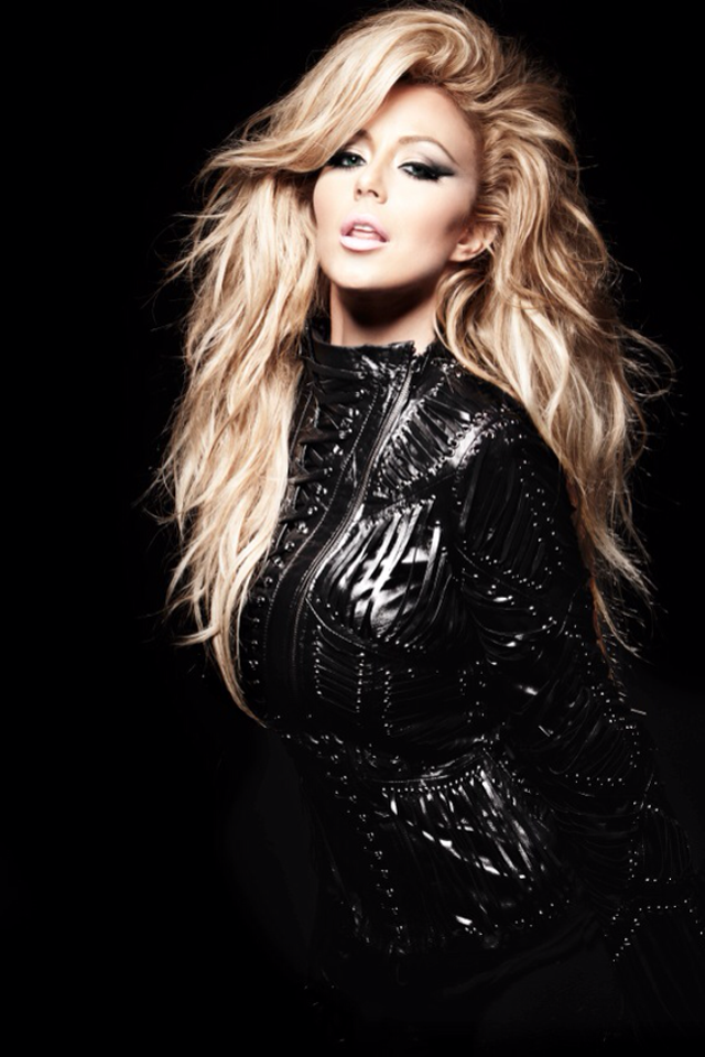 Aubrey O'Day in a leather jacket